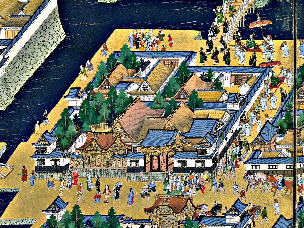 Residence of the daimyo Matsudaira Tadamasa on the lower middle of second panel, Left Screen. "View of Edo" (Edo zu) pair of six-panel folding screens (17th century).